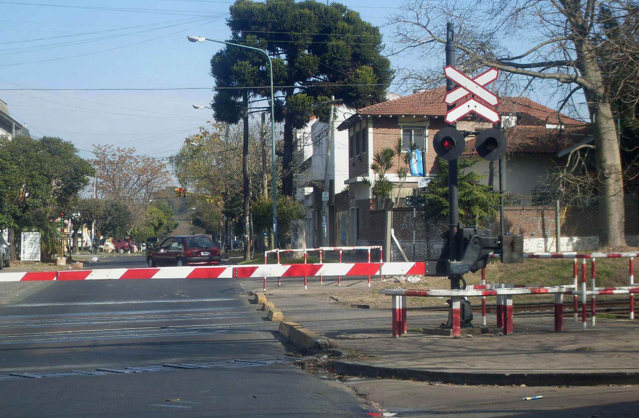 Level crossing on the interesection of Hipólito Yrigoyen street and the Ferrocarril Belgrano railroad tracks in Florida, Buenos Aires. The grade crossing signal is a GRSA device manufactured in Argentina.